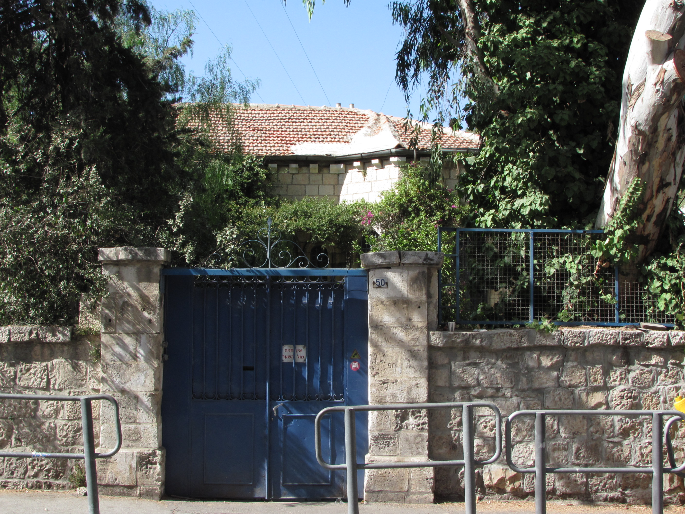 50 Street of the Prophets, Jerusalem.